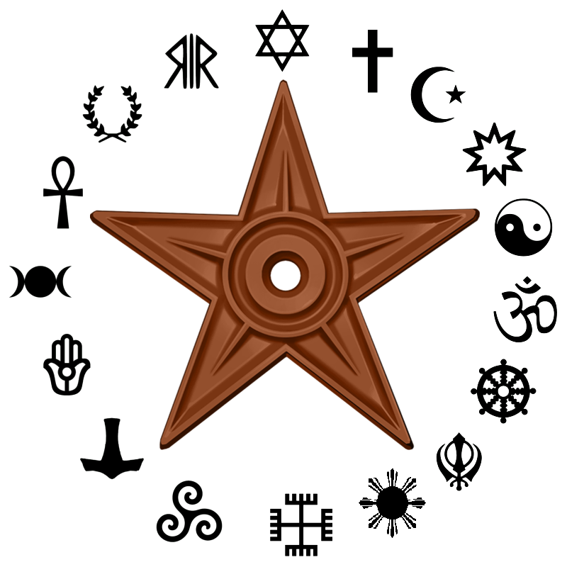 THEOLOGY-STAR